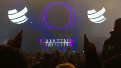 Wolfpack live at BigCityBeats World Club Dome Winter Edition at Veltins-Arena in Gelsenkirchen, Germany as a support act for Dimitri Vegas & Like Mike.